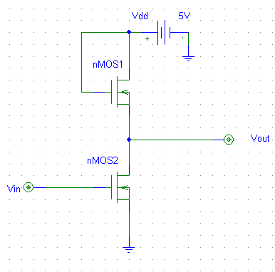 This schematic was constructed using a Student Evaluation version of PSpice 9.1 software. Since it contains no copyrighted material, and the schematic is a circuit that is common knowledge to any engineer skilled in the art of digital circuit design, it is released to public domain.